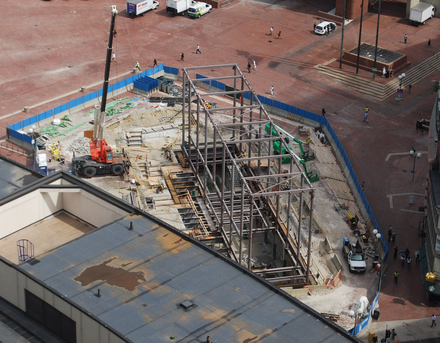 Construction work on Government Center station in September 2014, six months into a two-year closure